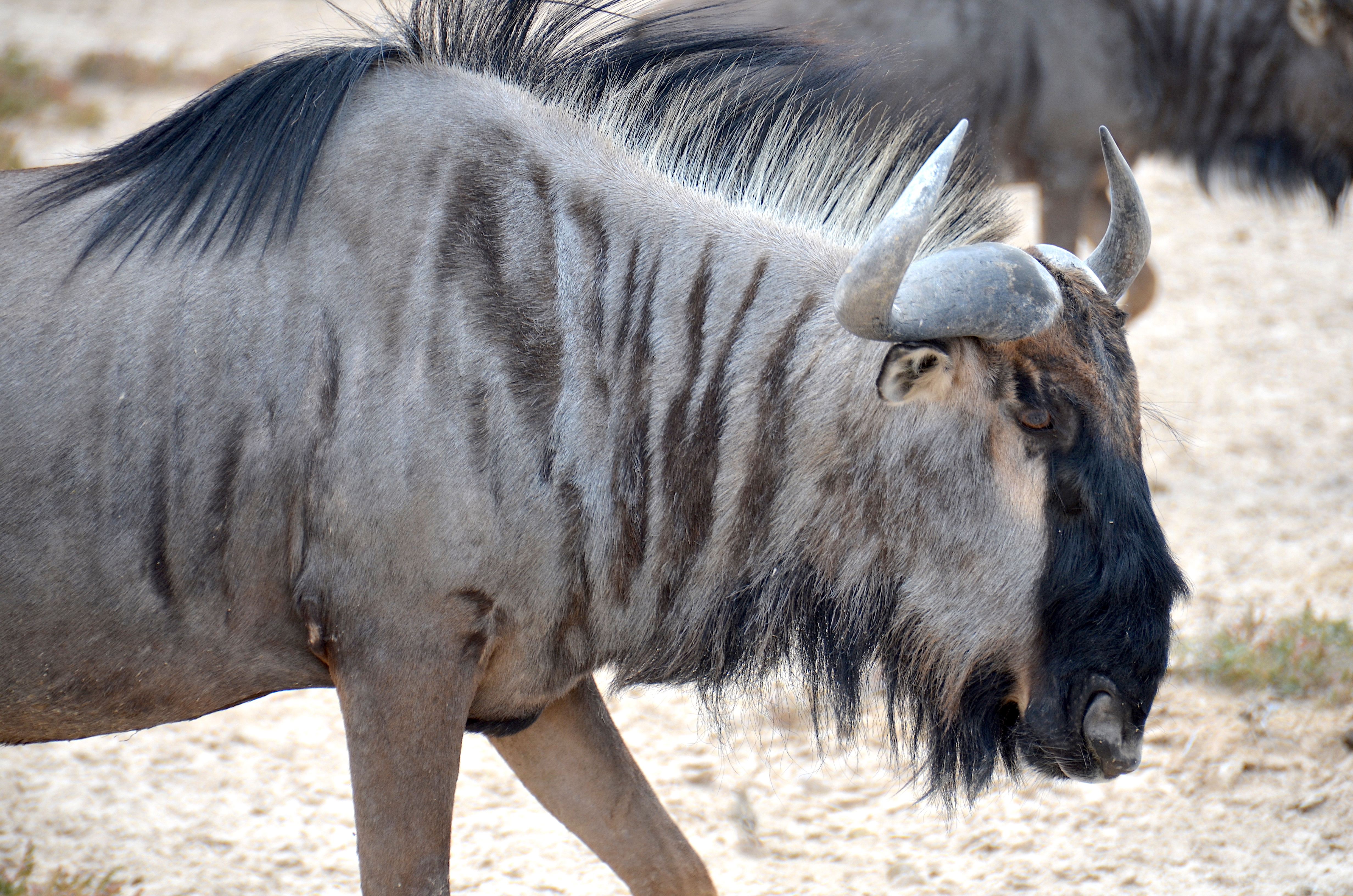 Blue wildebeest at Etosha National Park in Namibia